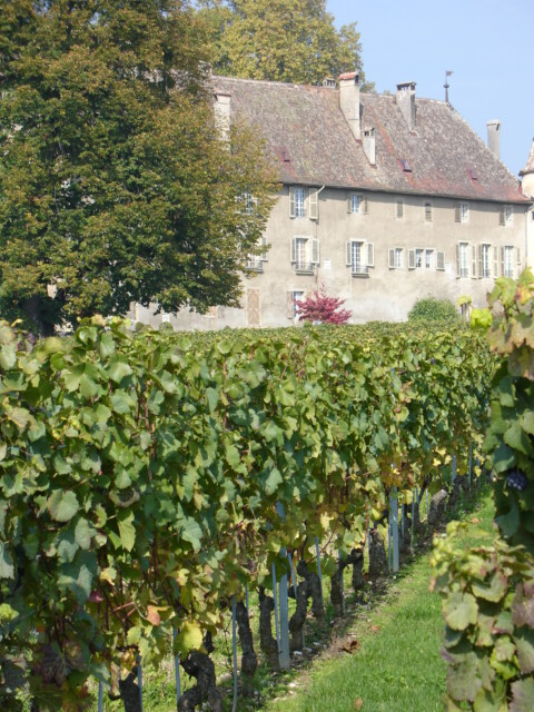 Vineyards on the grounds of Allaman Castle in Allaman, Vaud, Switzerland